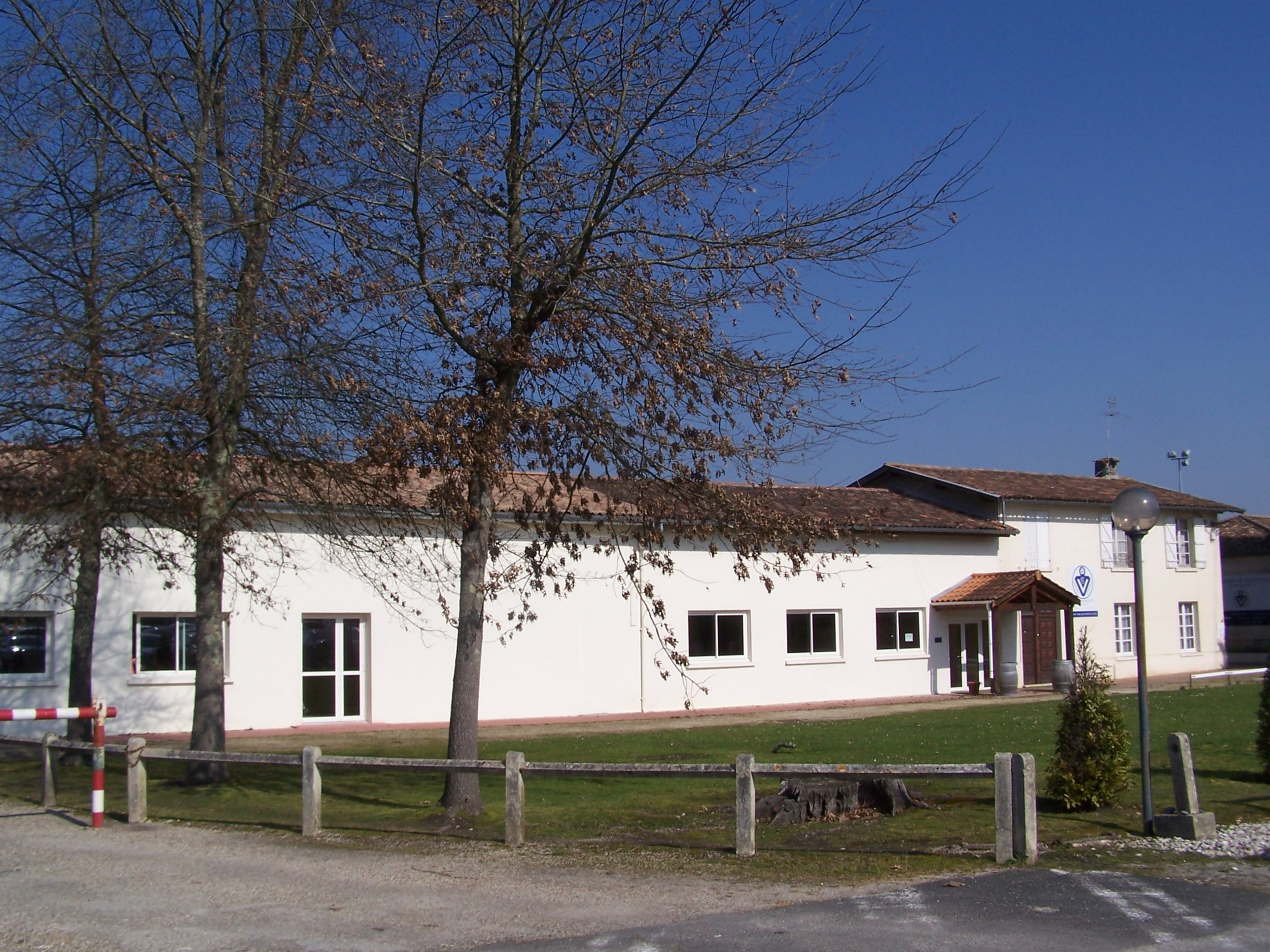 (Gironde, France)